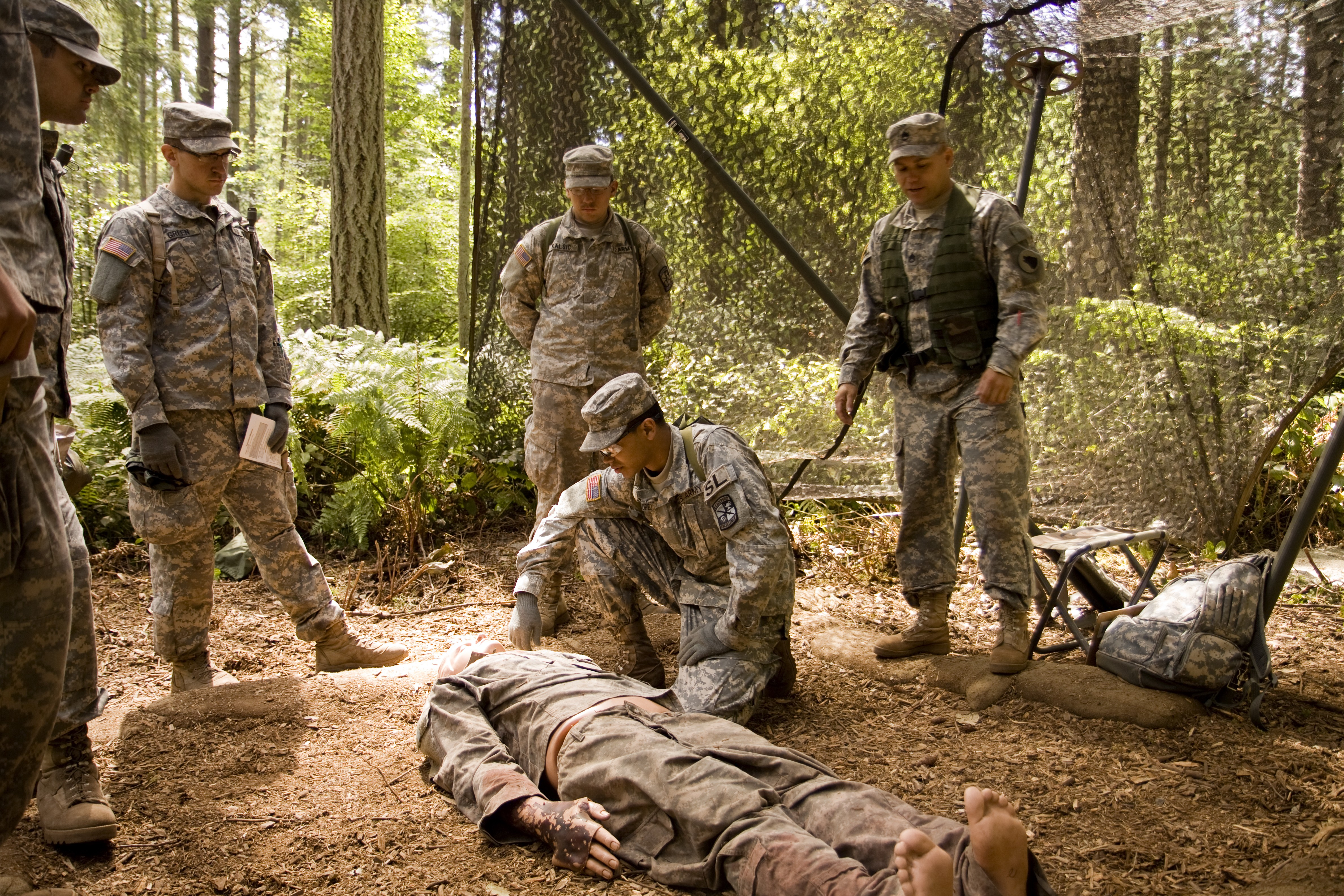 Staff Sgt.Kris Norville (far right) provides individual hands on instruction and practice time to Reserve Officer Training Corps cadets during Warrior Forge at Joint Base Lewis-McChord.